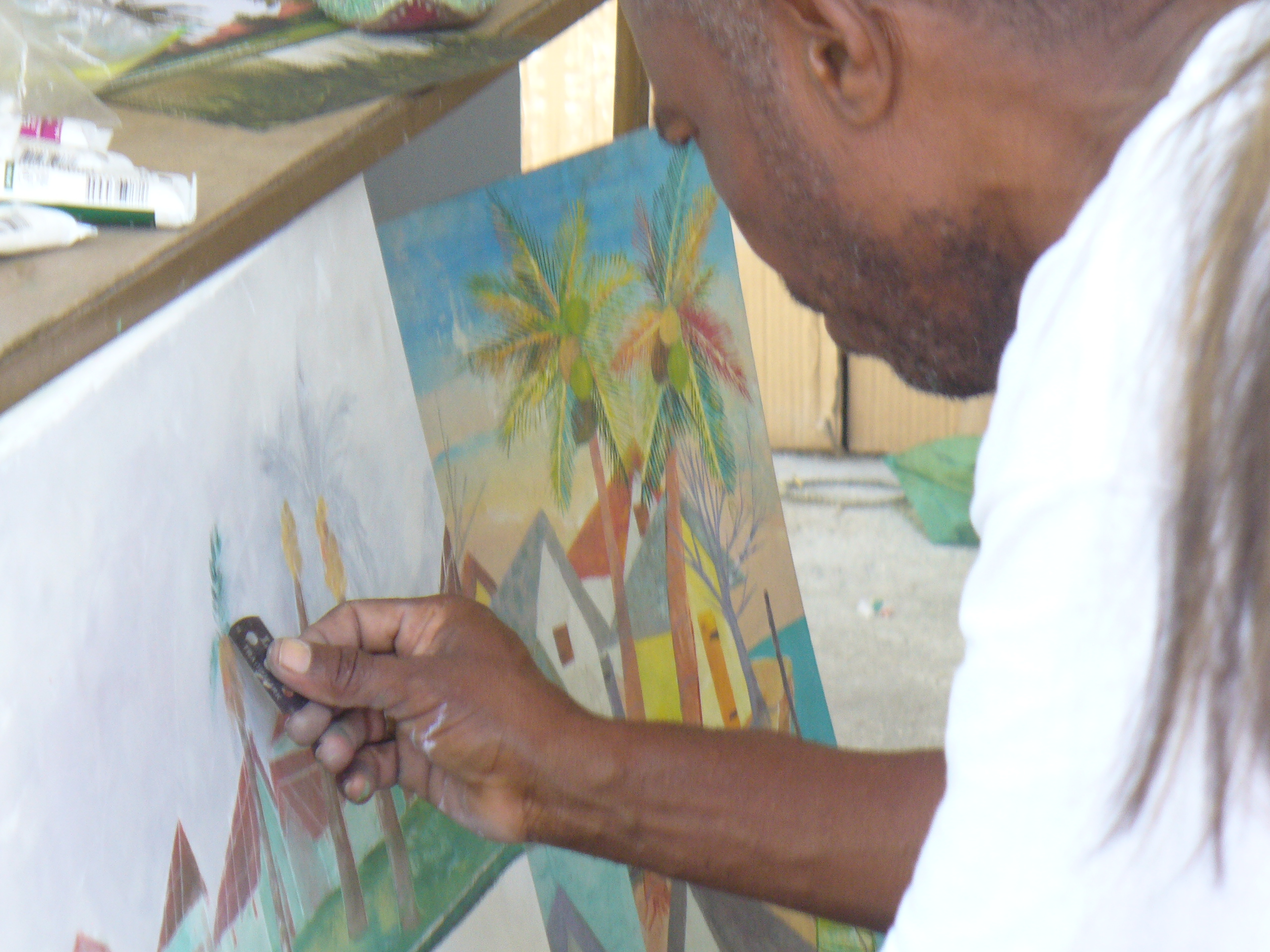 This is a photo of Nicolas Dreux working with razor blade and oil to create a painting